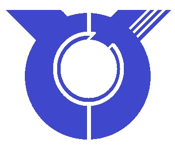 Higashiizu Shizuoka chapter